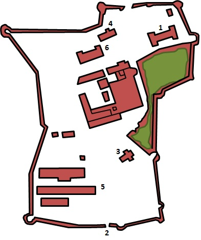 The plan of Shaki fortress. 1 - Khan's palace, 2 - Gates, 3 - former mosque (in 1828 changed into pravoslav church), 4 - mosque of Haji-Khan, 5 - baracks, 6 - outbuilding.